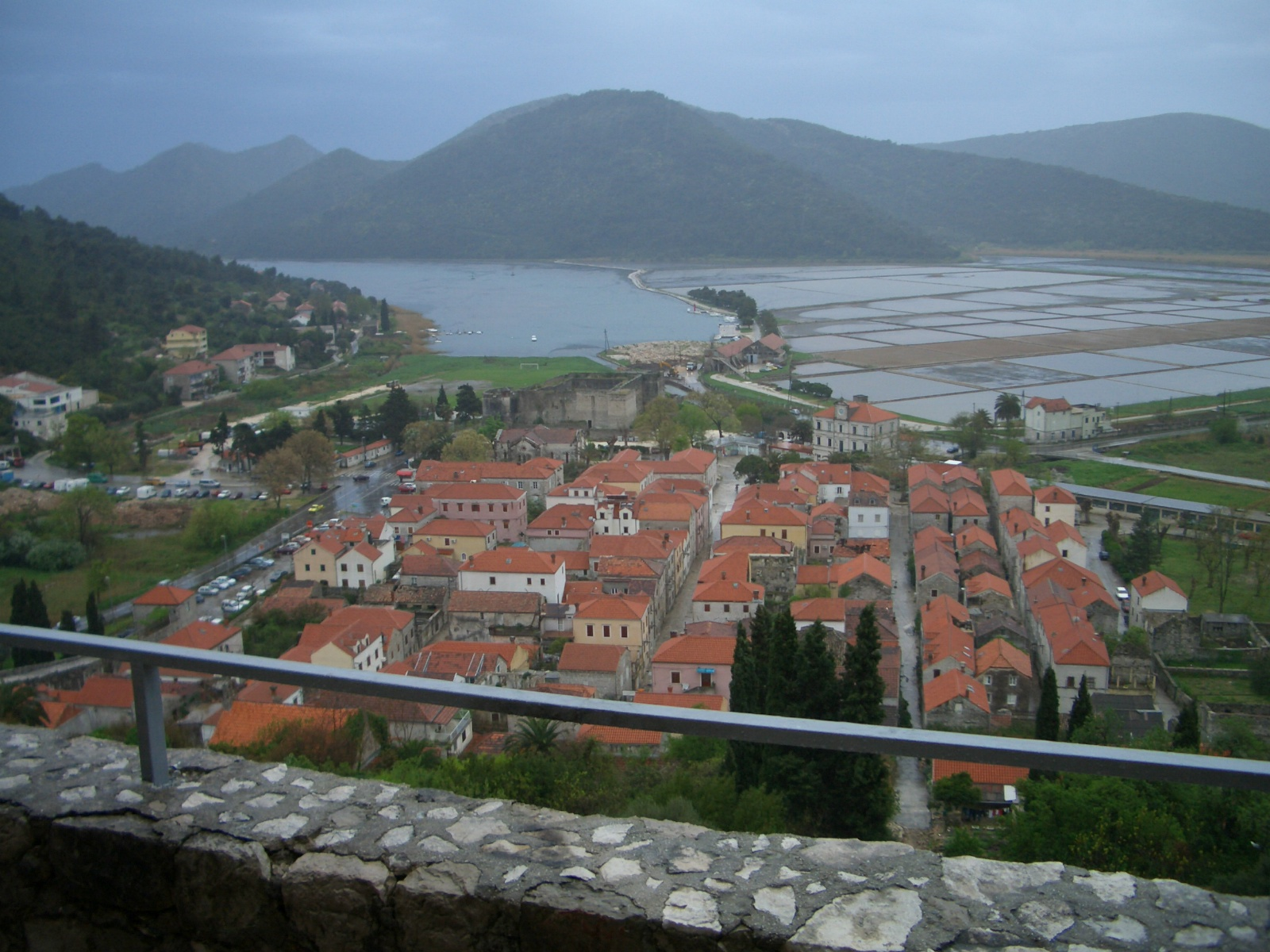 Ston, view from the wall